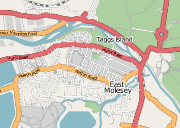 Map of Molesey